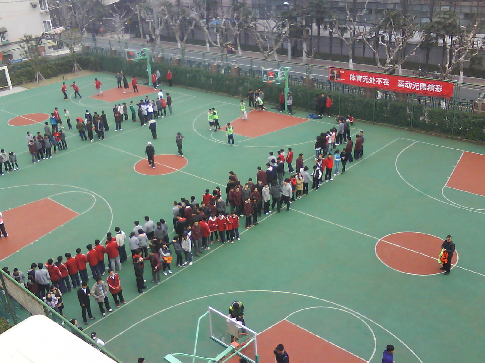 Basketball competition of Nanmo Cup